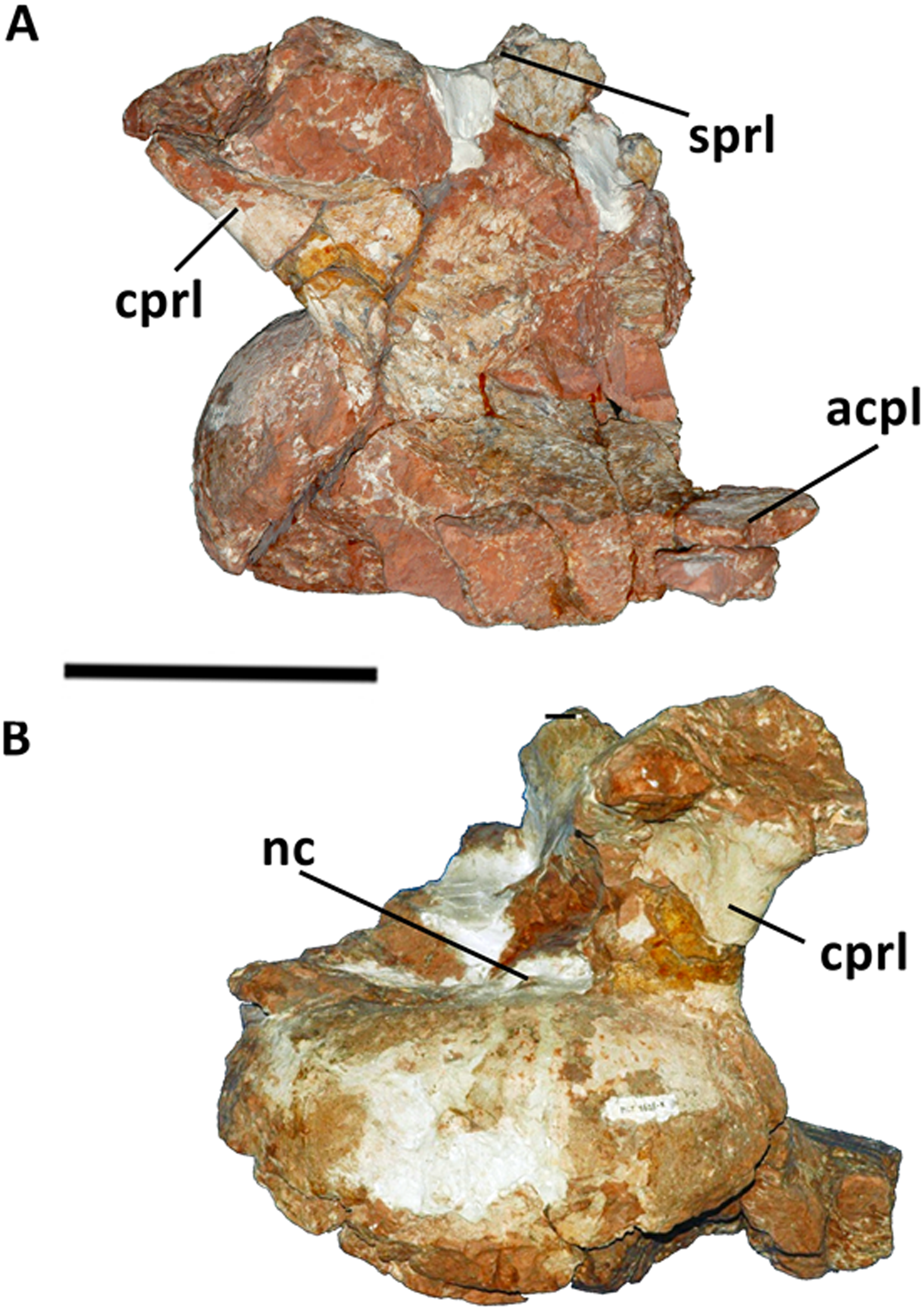 Cervical vertebra (Cv 12) of Austroposeidon magnificus gen. et nov. sp. (A) Left lateral and (B) anterior views. Abbreviations: acdl, anterior centrodiapophyseal lamina; acpl, anterior centroparapophyseal lamina; cprl, centroprezygapophyseal lamina; d, diapophysis; prz, prezygapophysis; prdl, prezygodiapophyseal lamina; prsl, prespinal lamina; s, neural spine; sprl, spinoprezygapophyseal lamina. Scale bar: 100mm.